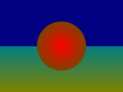 A classic example of the ChromaDepth concept: a red ball with dark orange shading in front of a green-tinted ground (which gradients from yellow to aqua) and a blue sky. Using ChromaDepth glasses, the red ball should appear somewhat round in front of a slanted ground, with the sky in the background.